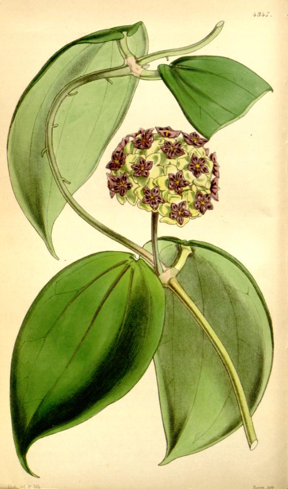 Illustration of Hoya cinnamomifolia